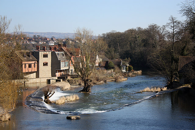 Horseshoe weir on the Teme from Ludford Bridge The Teme rises in the Kerry Hills, south of Newtown in Powys, and flows through Ludlow in Shropshire, and empties into the Severn south of Worcester. Two other rivers, the Ithon and the Mule, rise within 500 metres of the Teme. The river falls almost 500 metres during its descent from a height of 506 metres above sea level at source, to 14 metres above sea level at its confluence with the Severn. The entire river was designated as an SSSI in 1996. Five weirs, including the unusual and restored Horseshoe Weir, once provided the power for a series of watermills engaged in processing wool from Marches sheep.